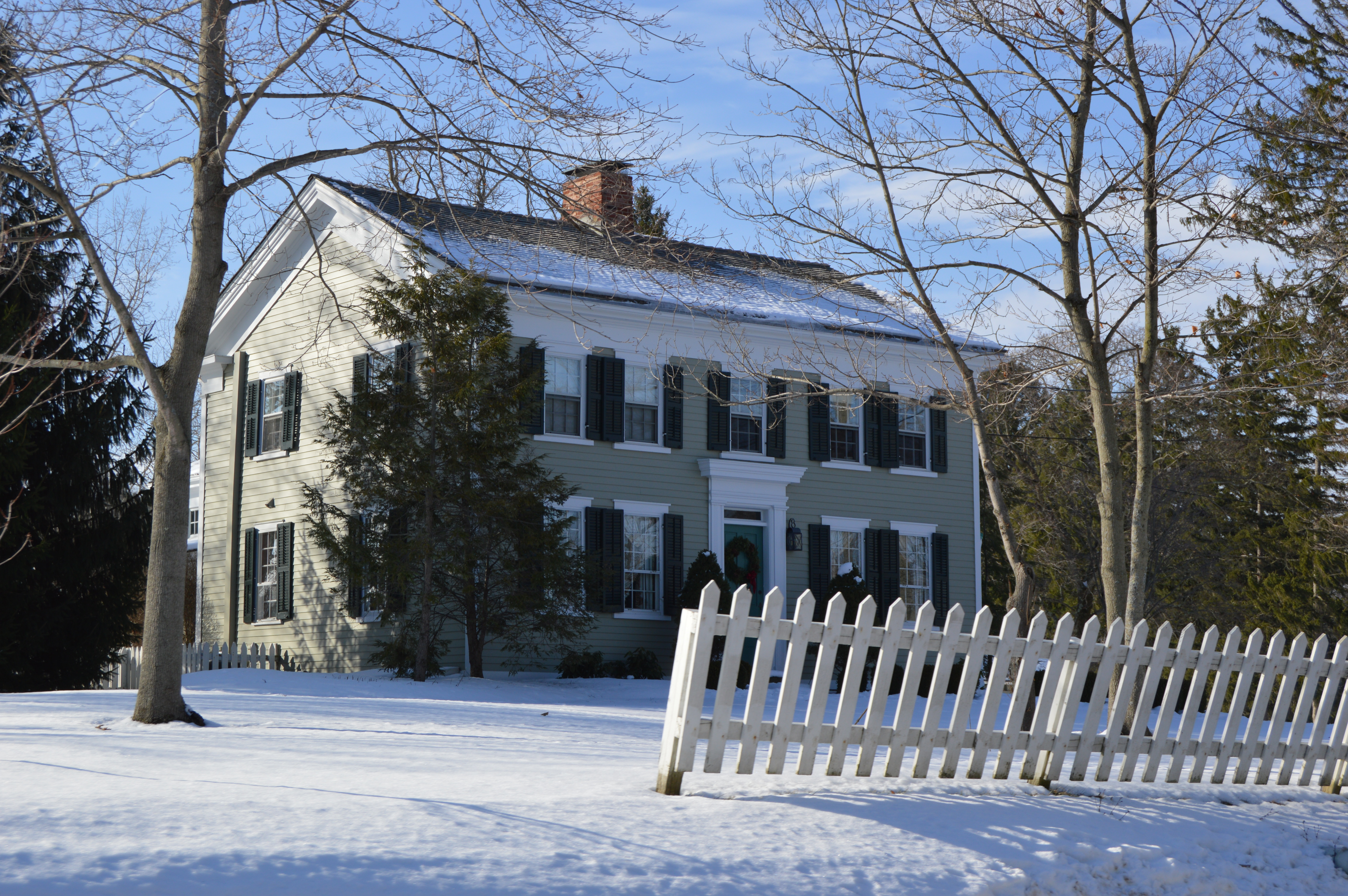 Front of the Luther B. Ranney Farmhouse, located at 6484 Old State Route 8 in Boston Heights, Ohio, United States. Built in 1844, it is listed on the National Register of Historic Places.